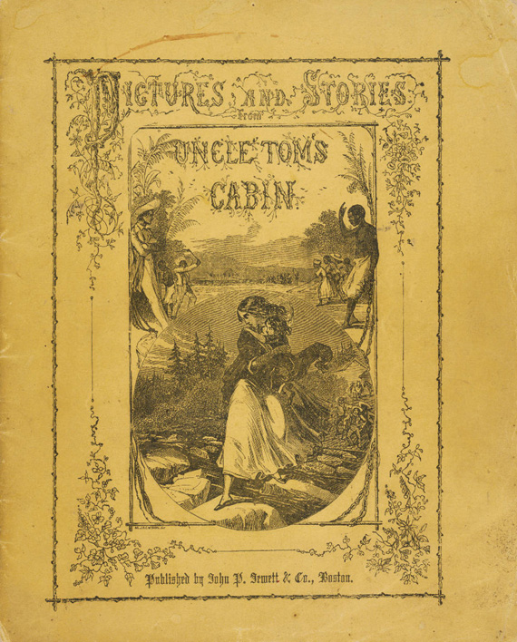 Pictures and Stories from Uncle Tom’s Cabin. Boston: John P. Jewett & Co., c1853. Note from source: "This abridged book of prose and verse for children was adapted from Uncle Tom’s Cabin and intended to encourage young readers to sympathize with its enslaved characters."